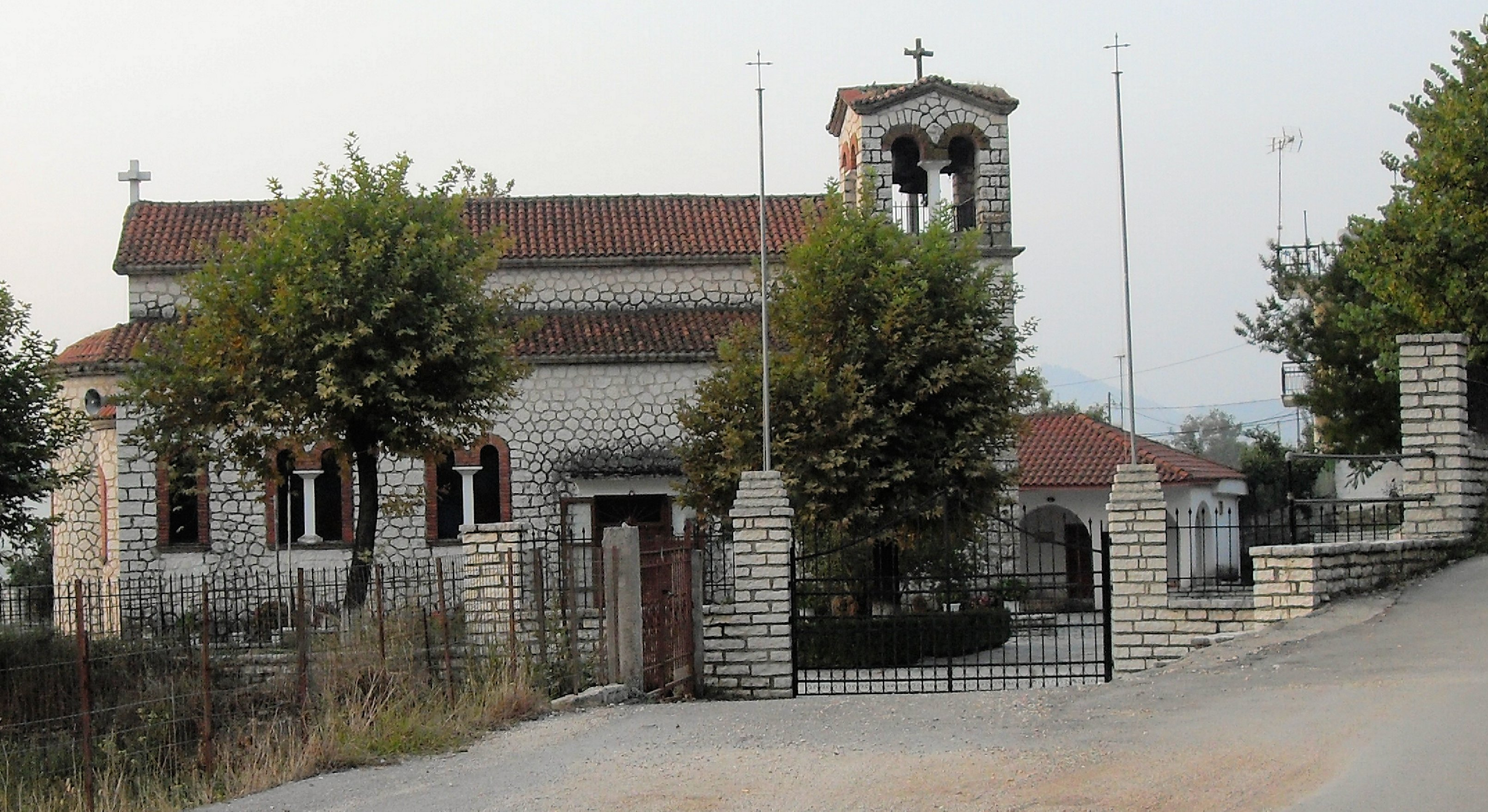 Kerasona church, municipality of Filippiada